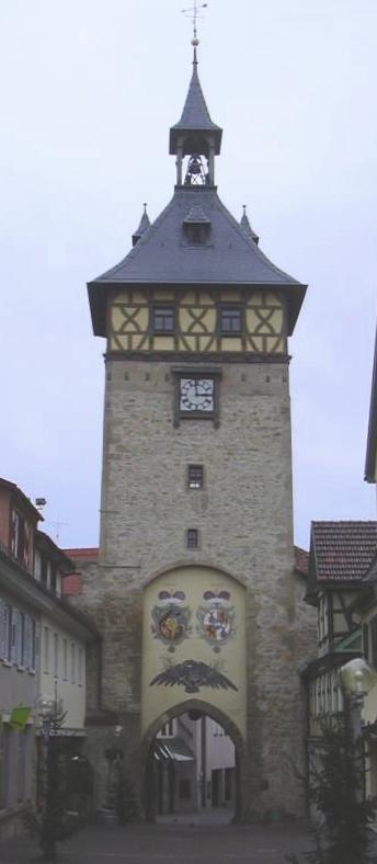 Old city tower in Marbach am Neckar (Germany)